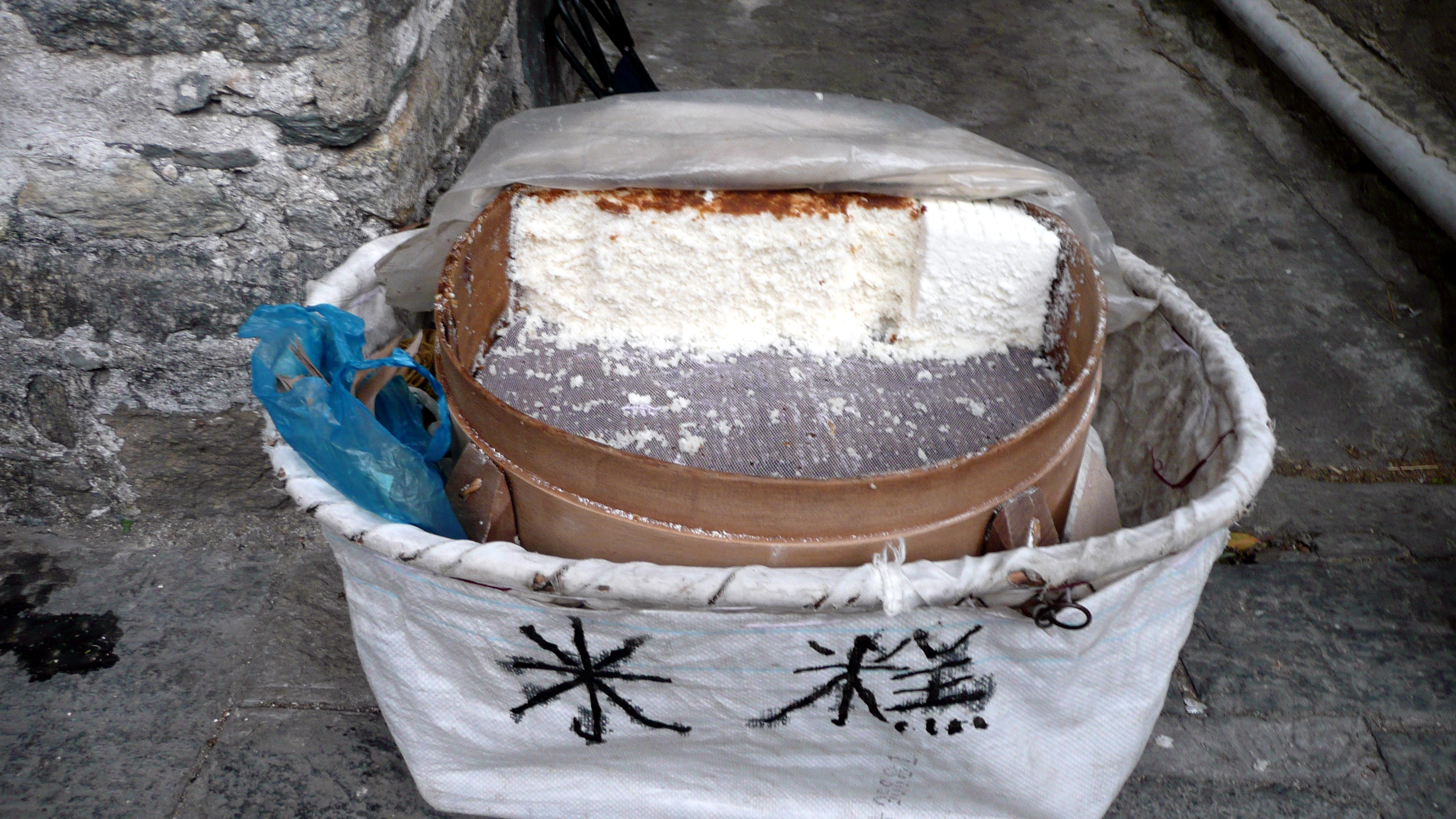 Chinese rice cake (米糕 migao, Reiskuchen), on the street in old town of Dali, Yunnan, China